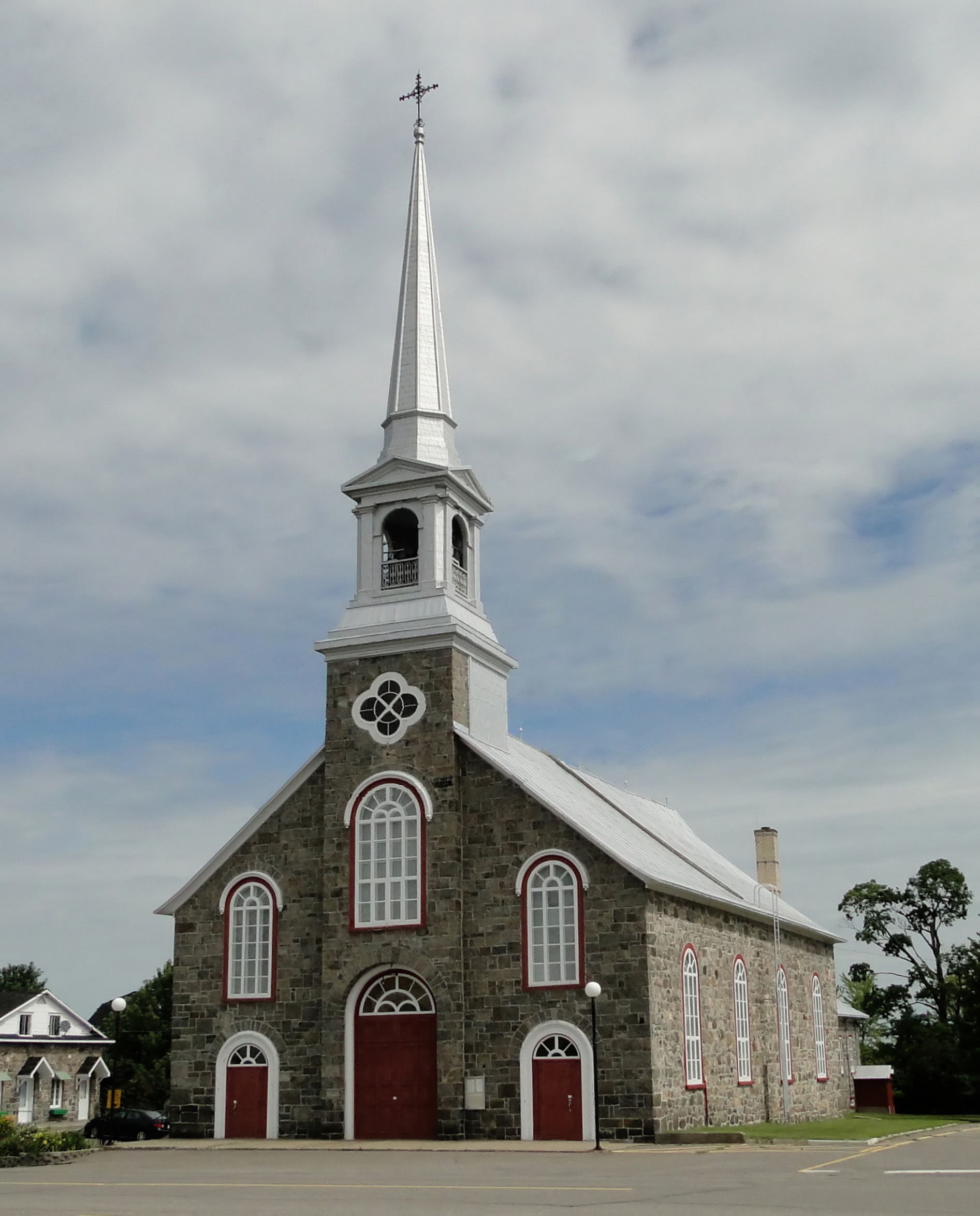 Saint Eugène Church (1873), l'Islet, Province of Quebec, Canada